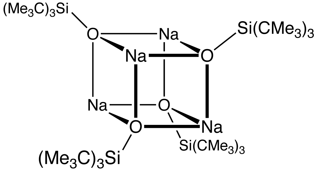 structure of Na silox tetramer